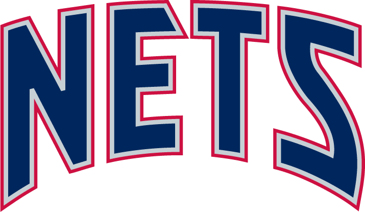 "Nets" in blue outlined in red. The logo of the New Jersey Nets